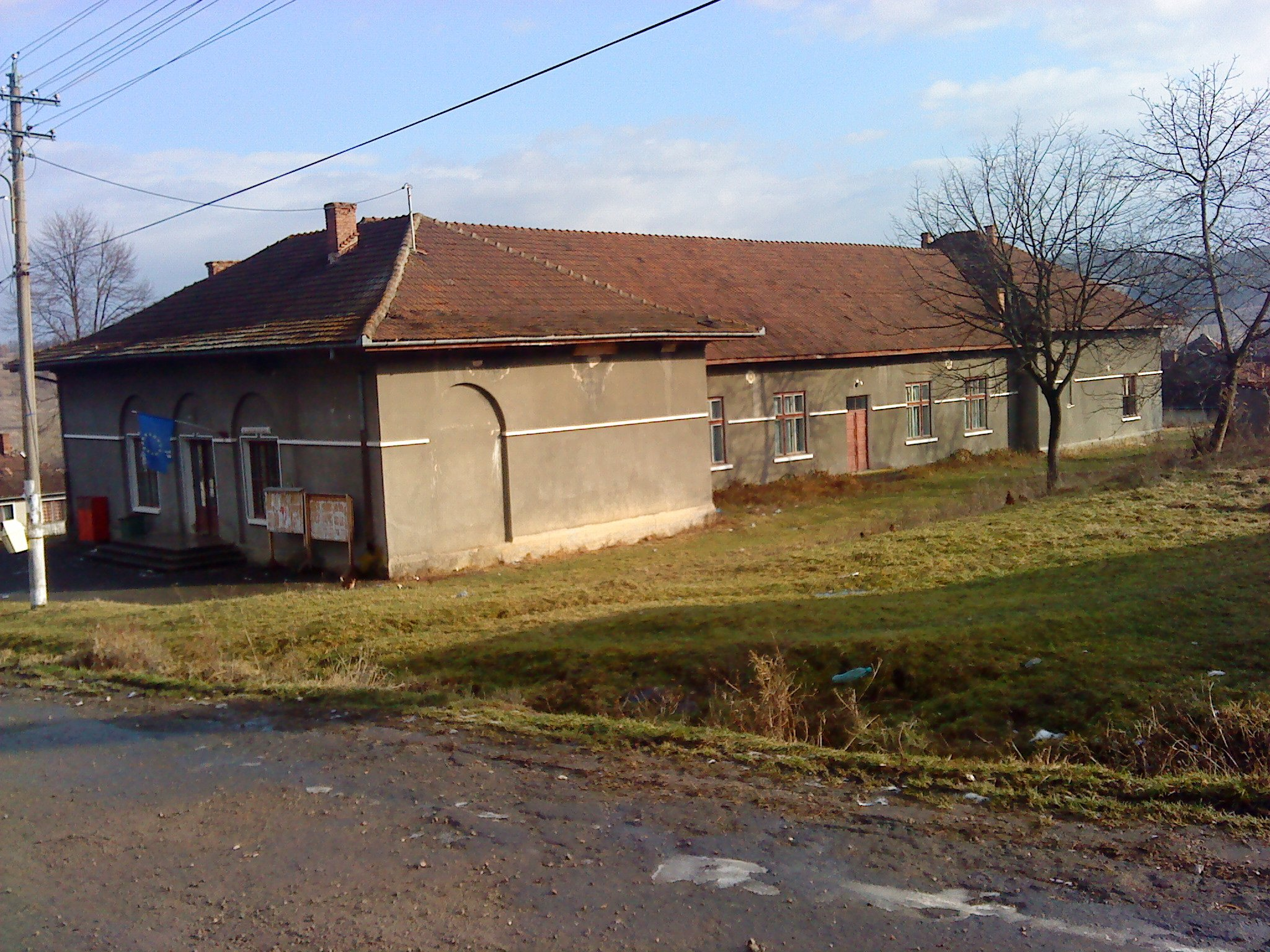 Cincis Cerna 2011